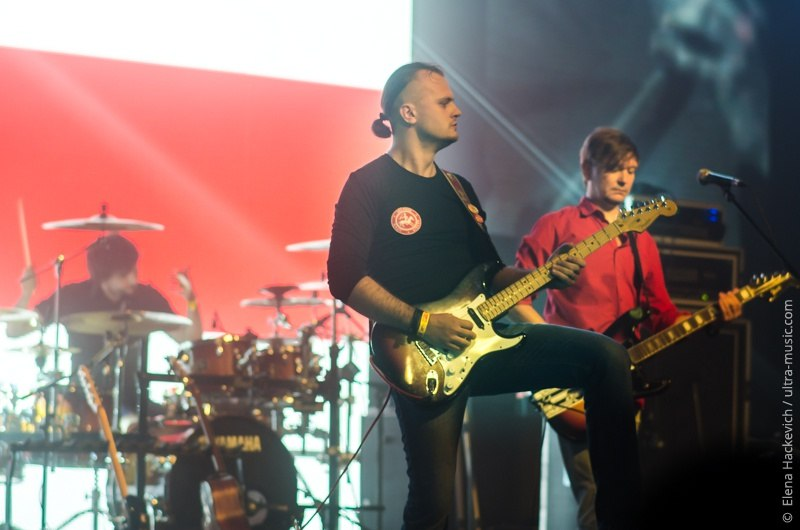 Pasha Triputs and Liavon Volsky